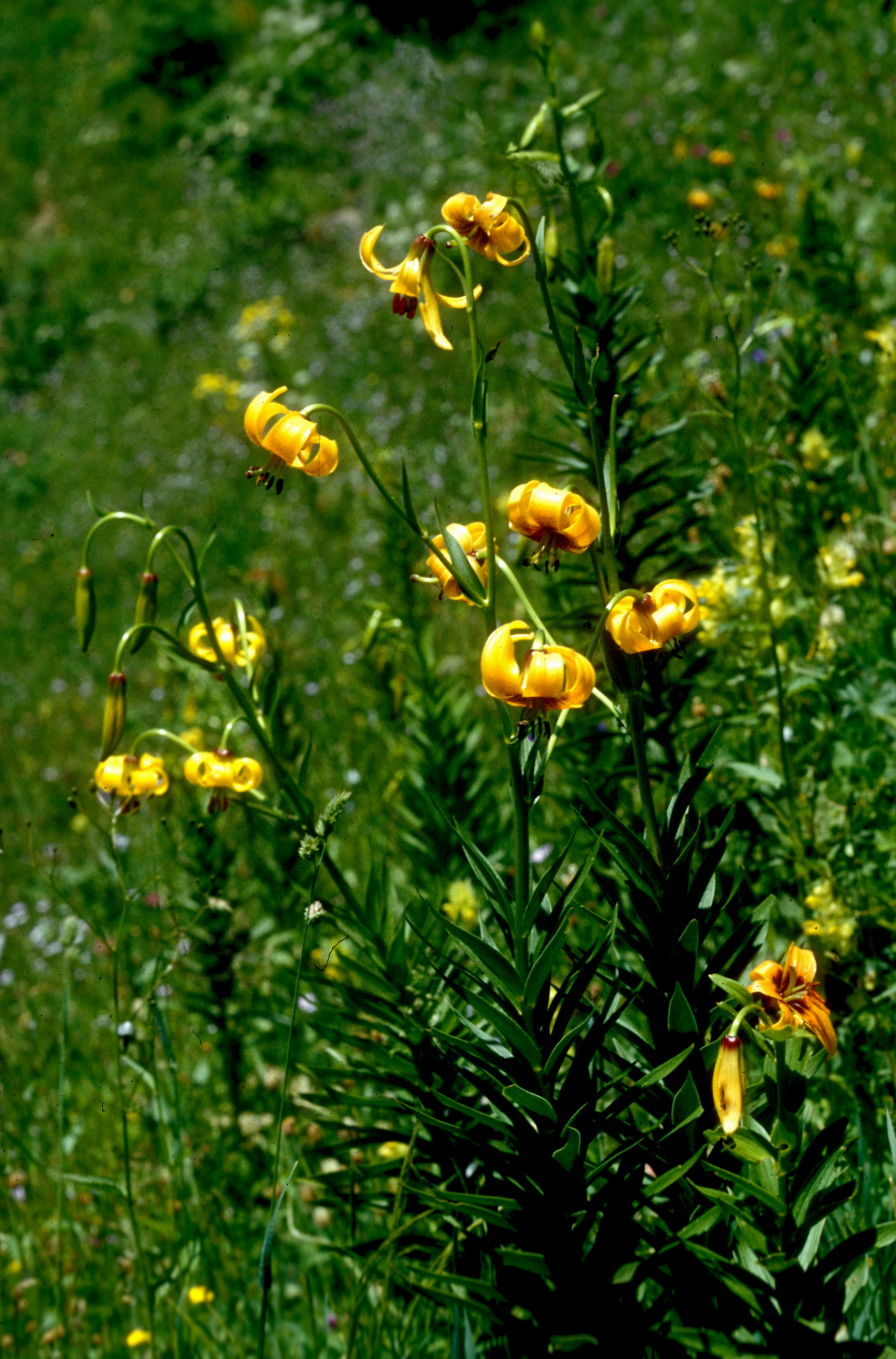 Lilium ponticum in habitat near Ikizdere, Turkey